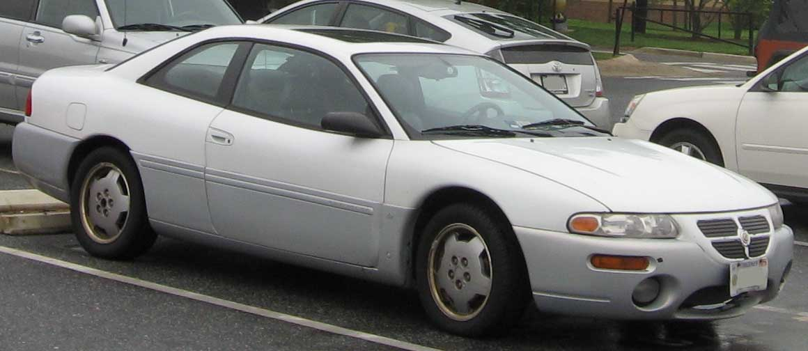 1995-1996 Chrysler Sebring photographed in College Park, Maryland, USA.